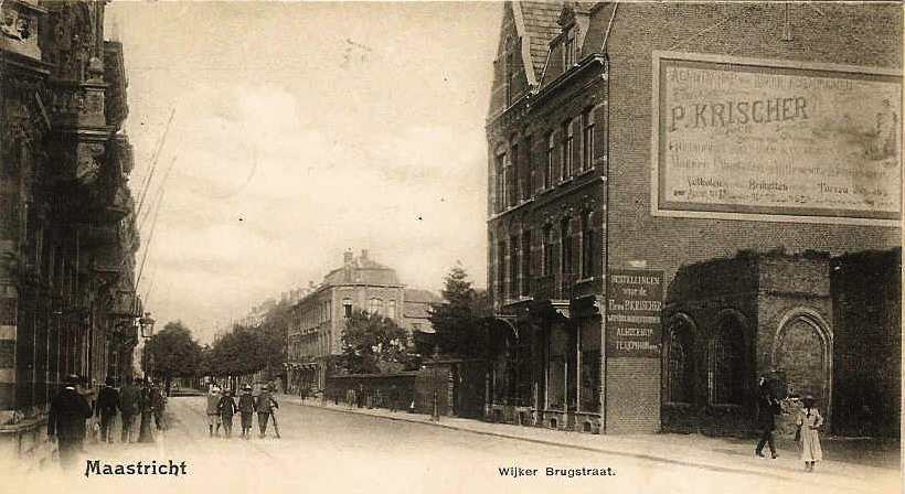 Maastricht, the Netherlands. View towards the East of Wycker Brugstraat (postcard, ca 1890)